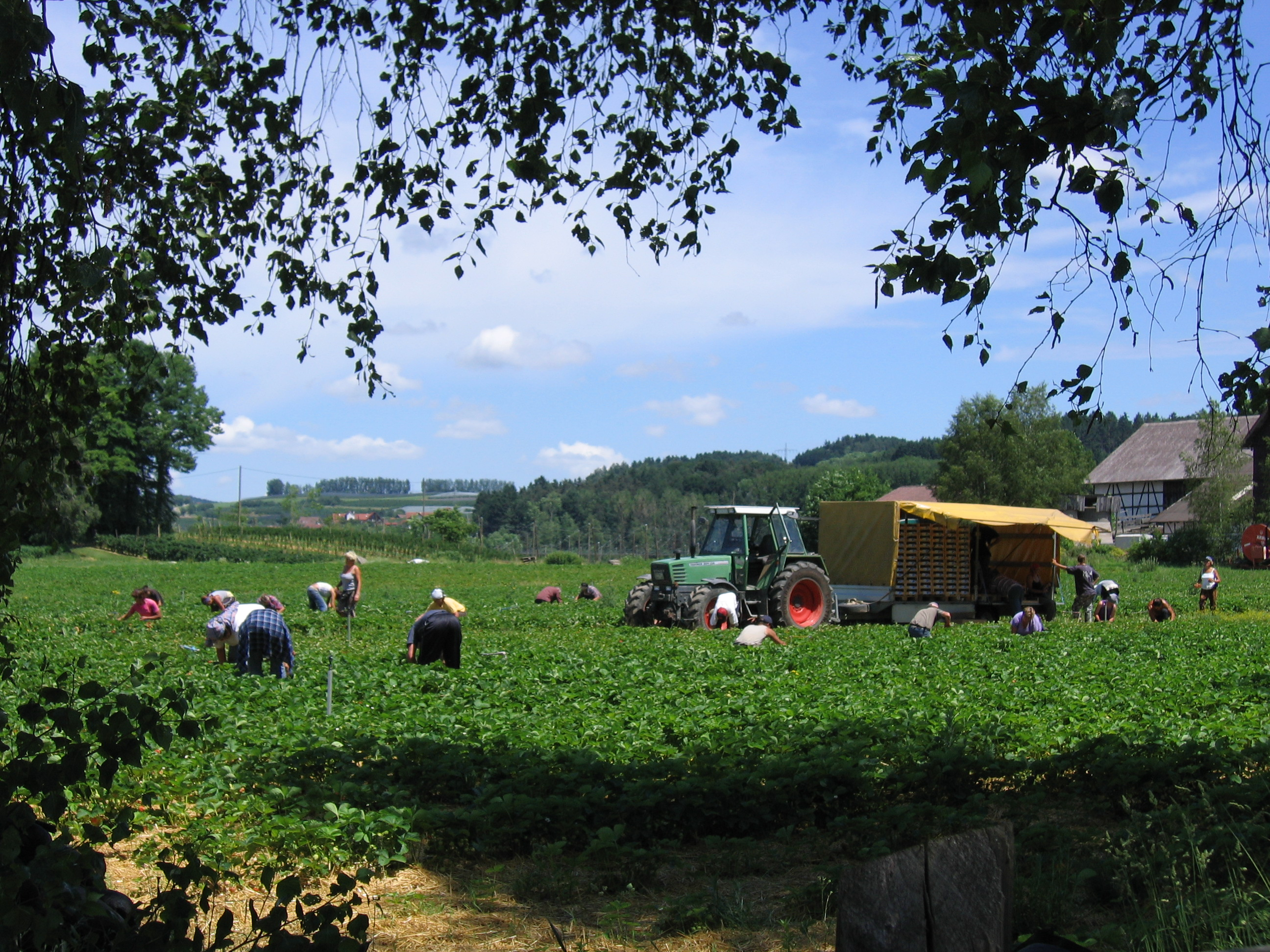 Germany - Baden-Württemberg - Bodenseekreis - Tettnang: strawberry harvest